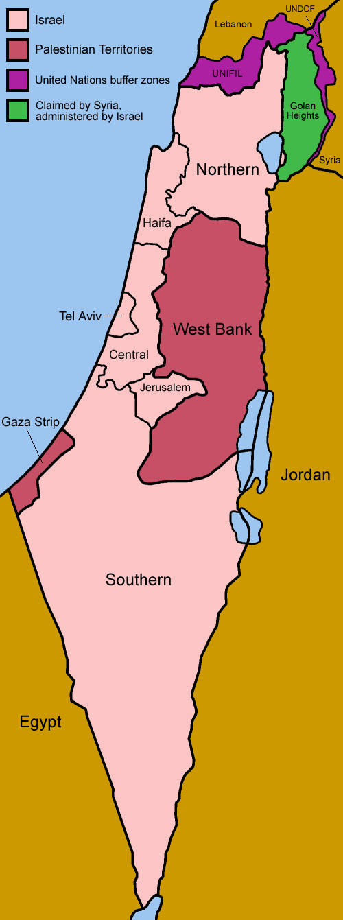 Map of the districts of Israel.